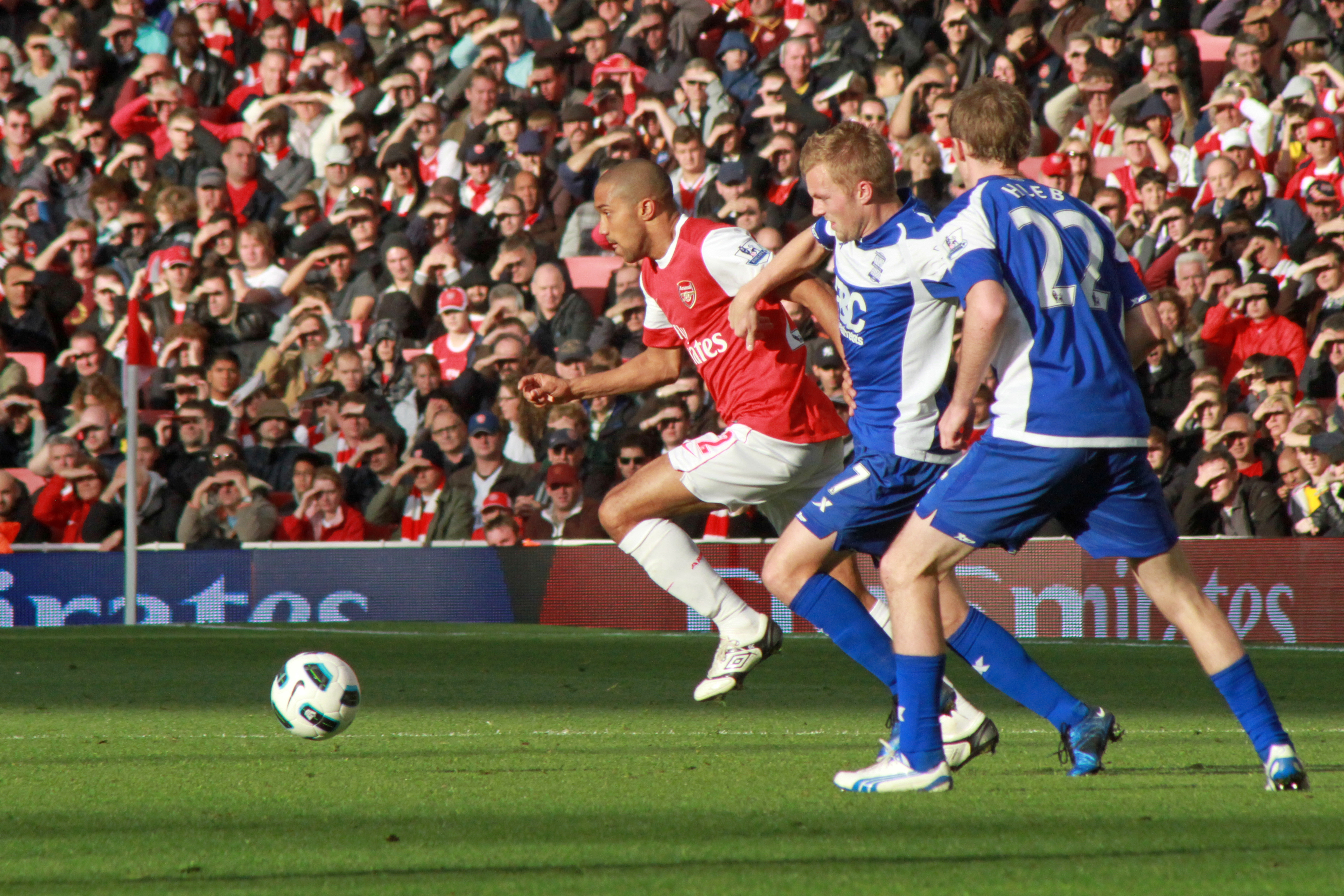 Arsenal v Birmingham City The Emirates 16 October 2010 (2-1)